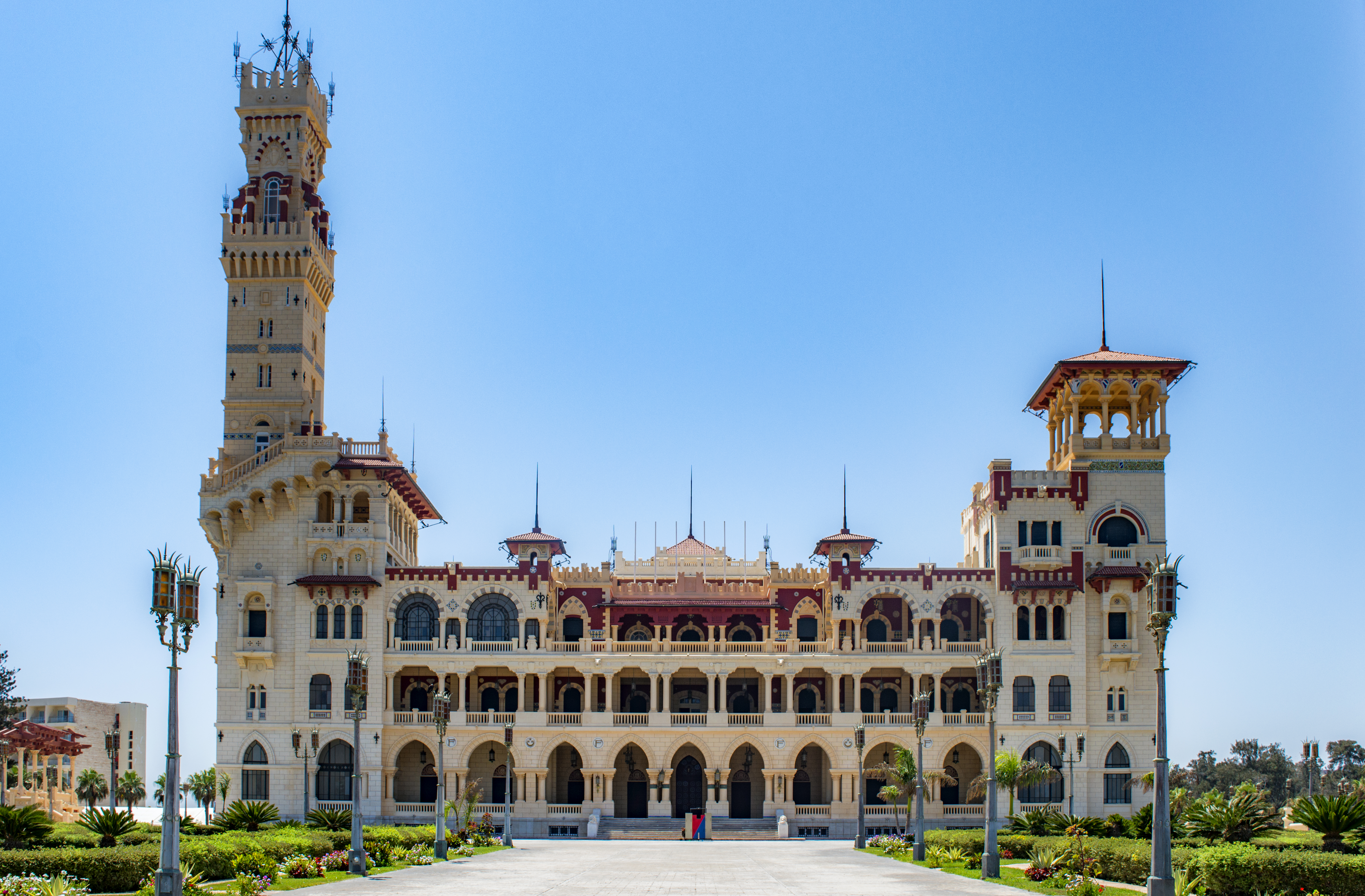 View of Montaza Palace in Alexandria, Egypt